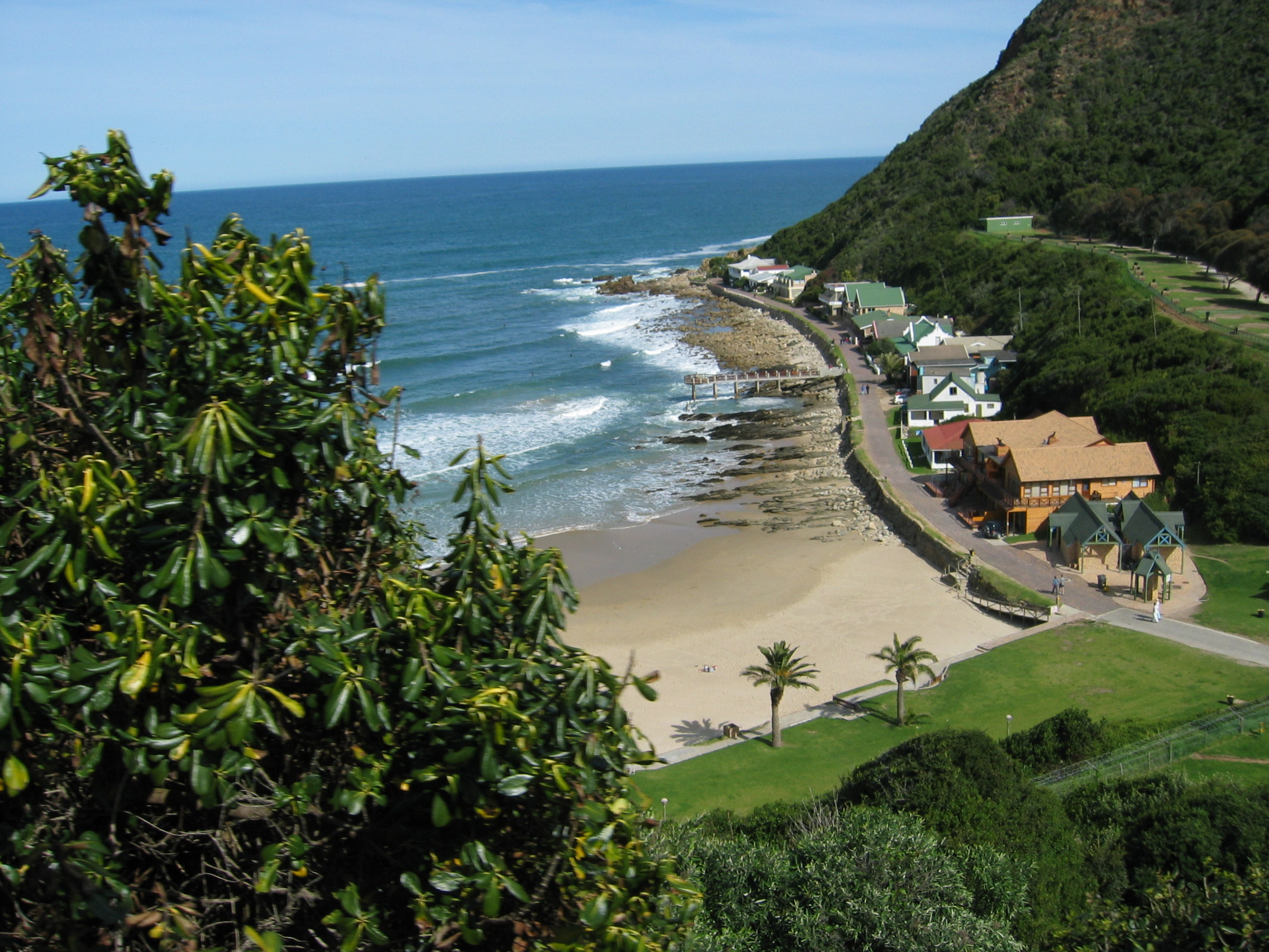 Scenic views on the way from George to Knysna, South Africa